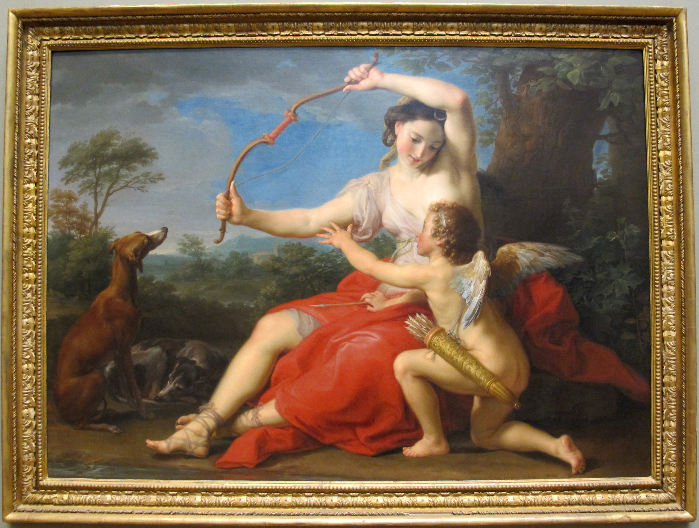 Italian Rococo paintings in the Metropolitan Museum of Art